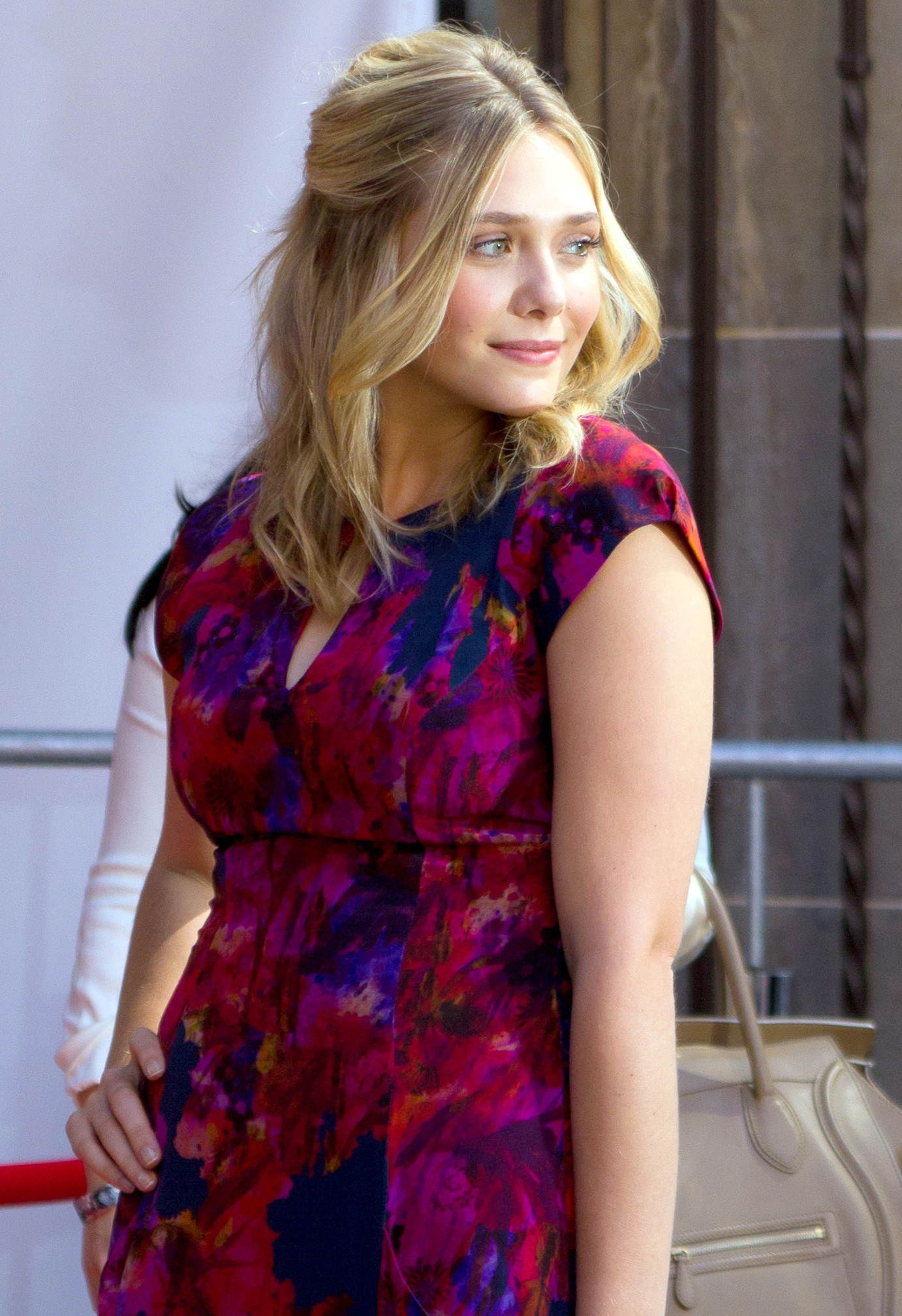 Elizabeth Olsen at the Toronto International Film Festival 2011.